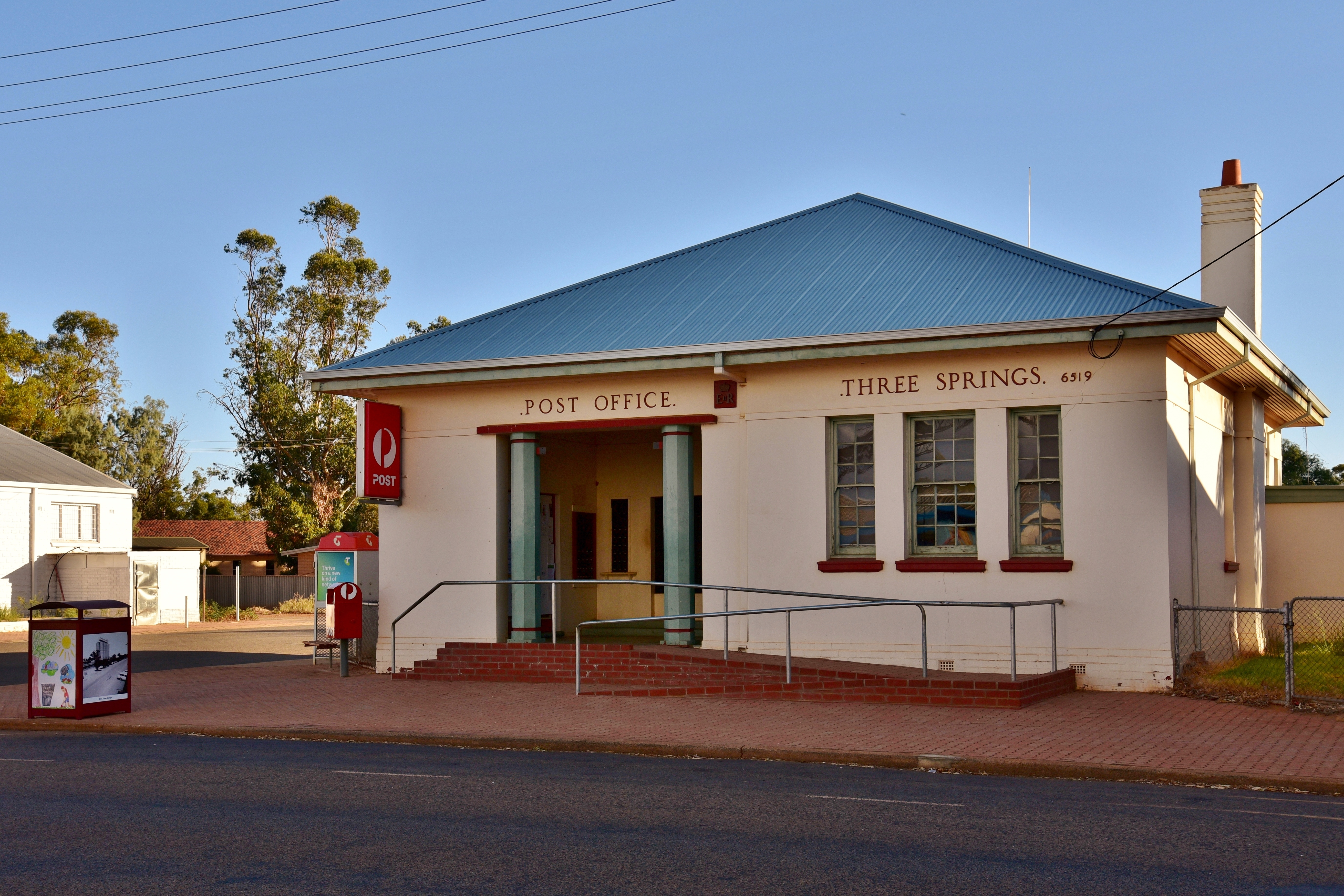 View of the Three Springs Post Office, Railway Road, Three Springs, Western Australia